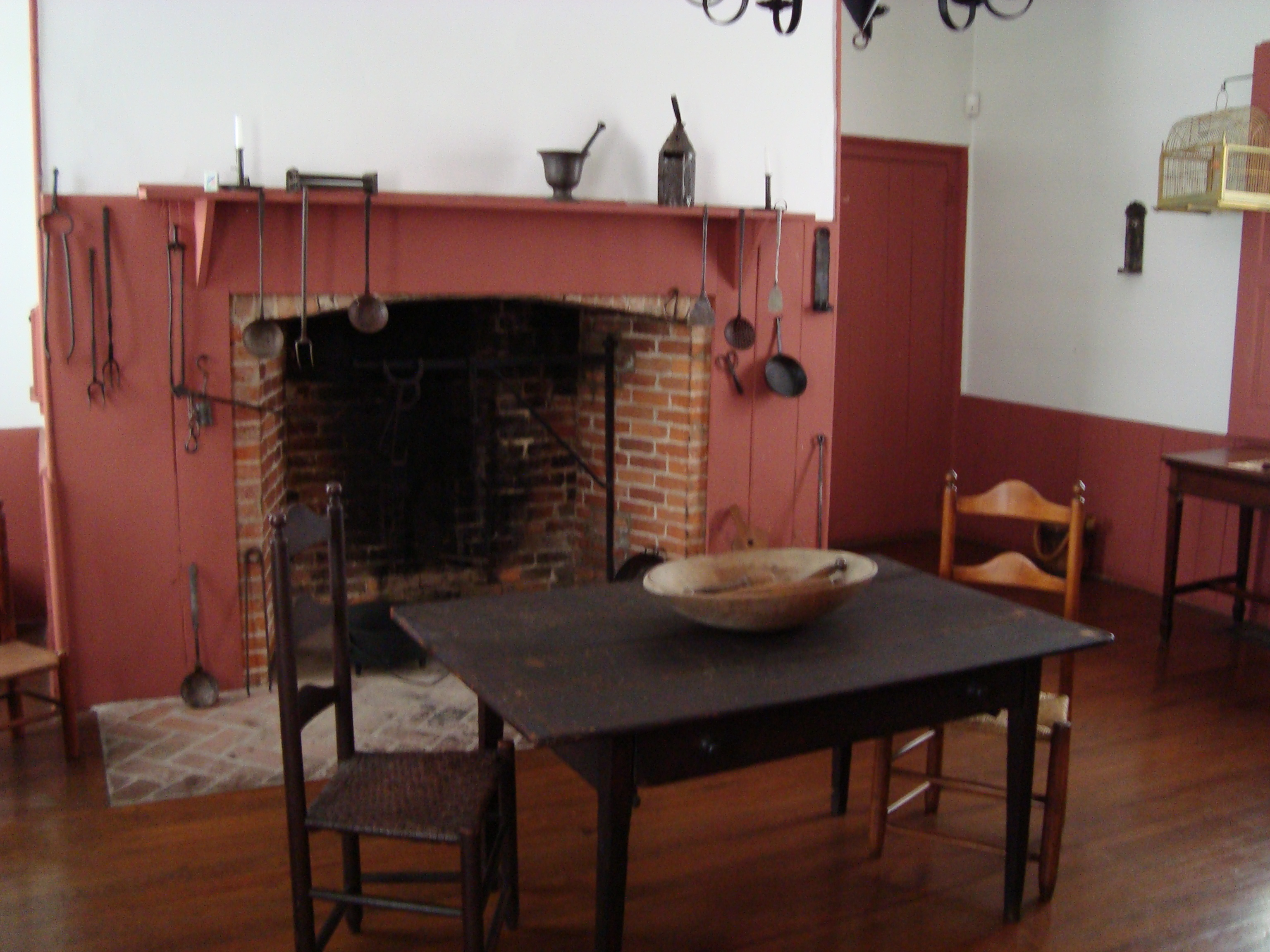 Kitchen of the Joseph Priestley House